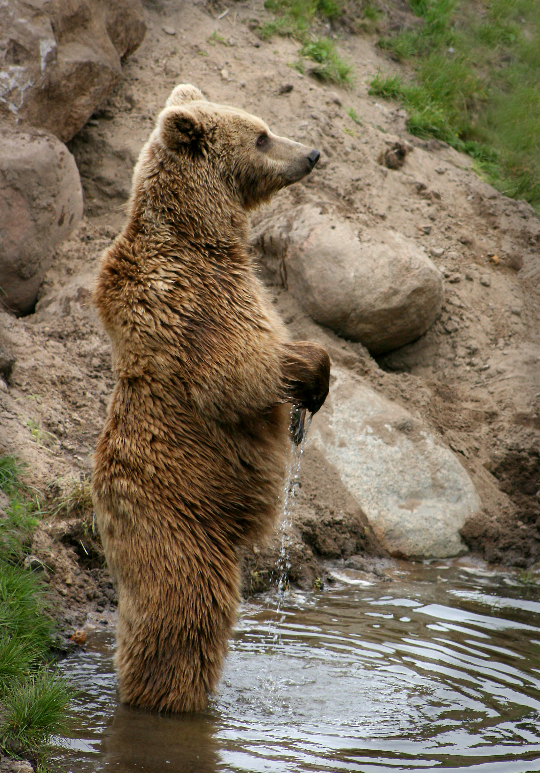 Brown bear (Ursus arctos arctos). From Skandinavisk Dyrepark, Denmark.